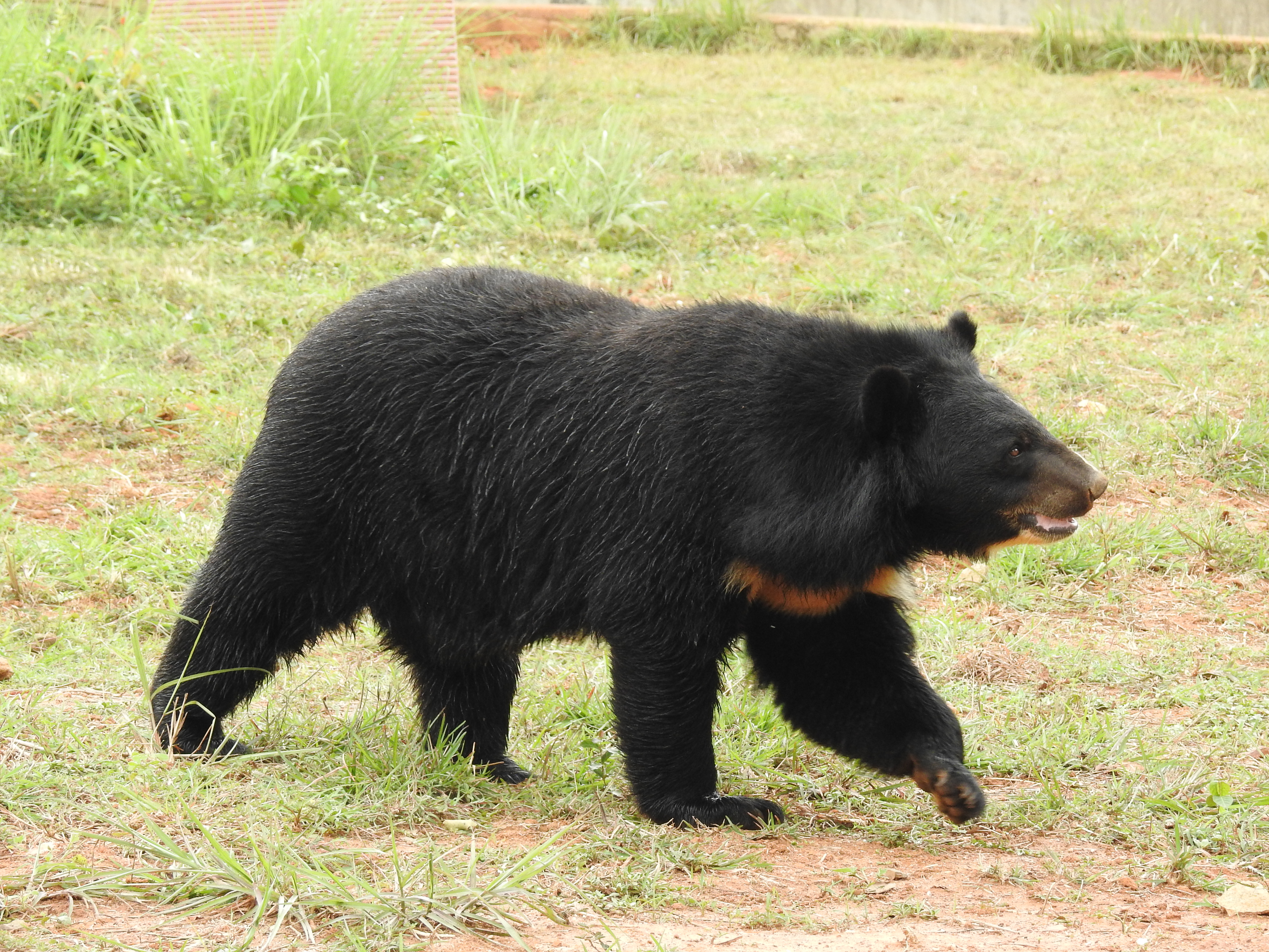 Asian Black Bear Ursus thibetanus by Dr. Raju Kasambe. Photo taken at Bhagawan Birsa Biological Park, Ranchi.